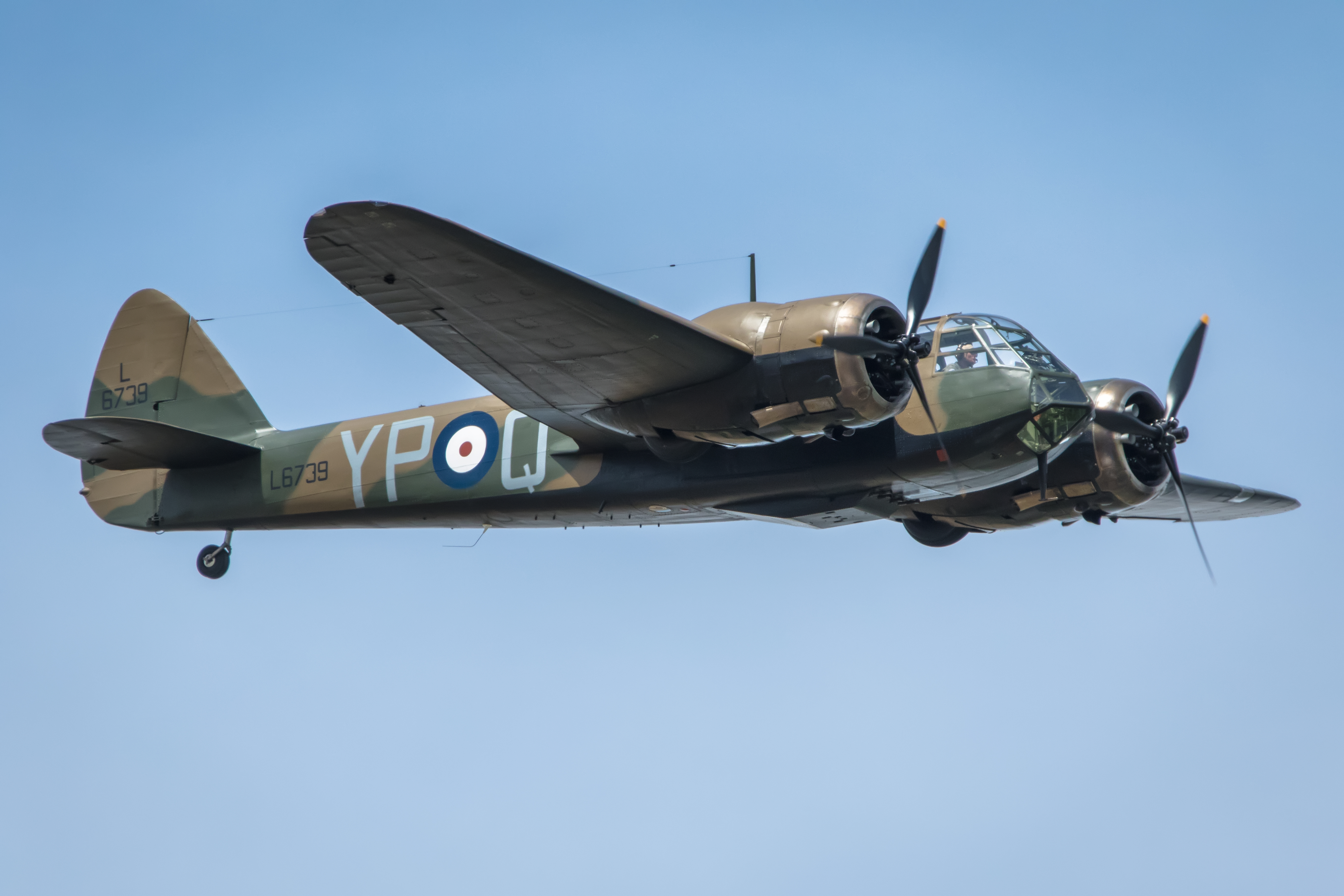 The Bristol Blenheim was a British light bomber aircraft designed and built by the Bristol Aeroplane Company that was used extensively in the early days of the Second World War. It was adapted as an interim long-range and night fighter, pending the availability of the Beaufighter. It was one of the first British aircraft to have all-metal stressed-skin construction, retractable landing gear, flaps, a powered gun turret and variable-pitch propellers.